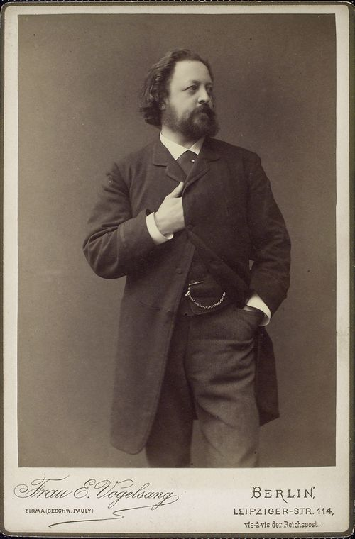 The german writer Paul Heyse (1830-1914)